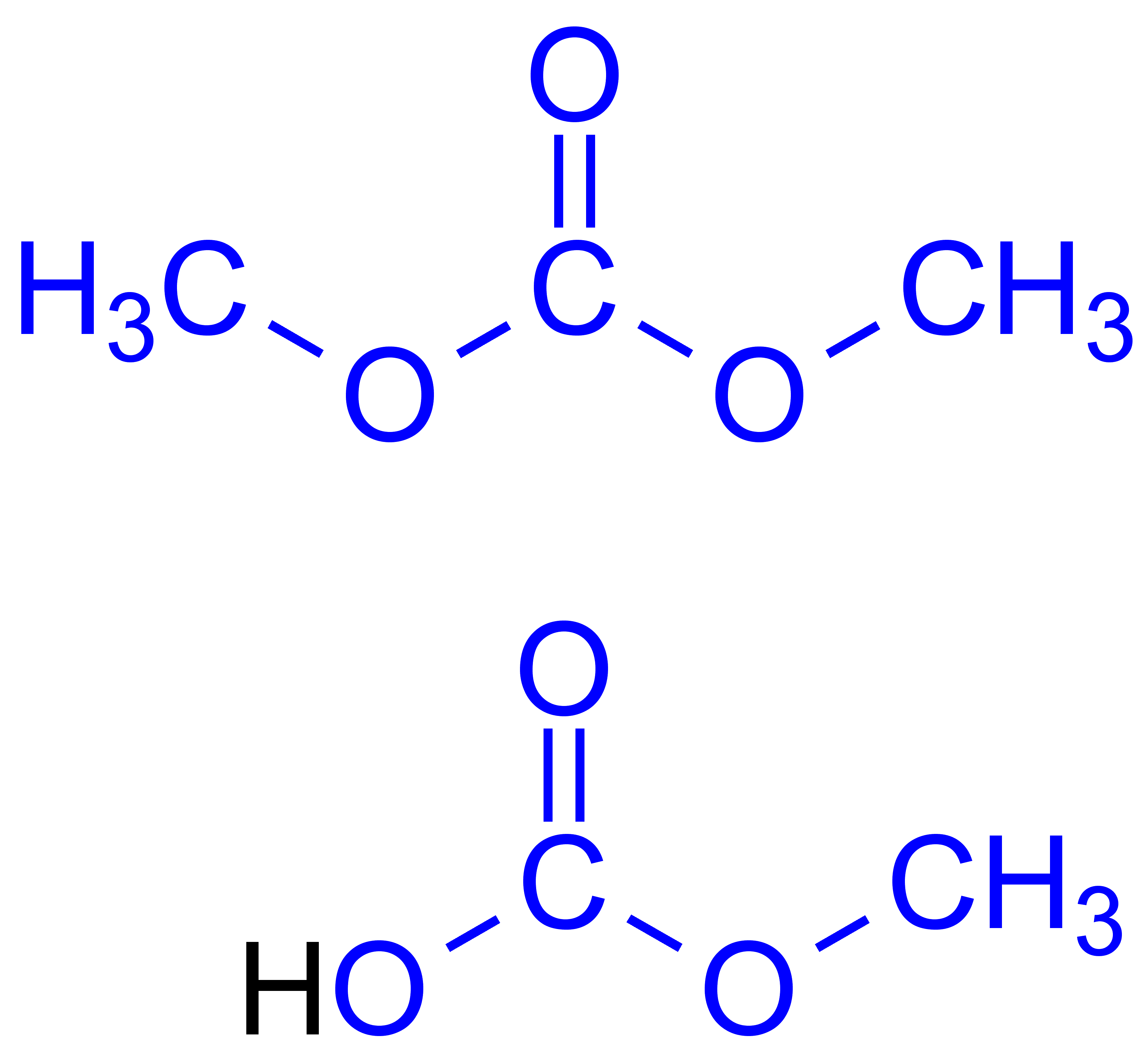 Methylcarbonate_General_Structure